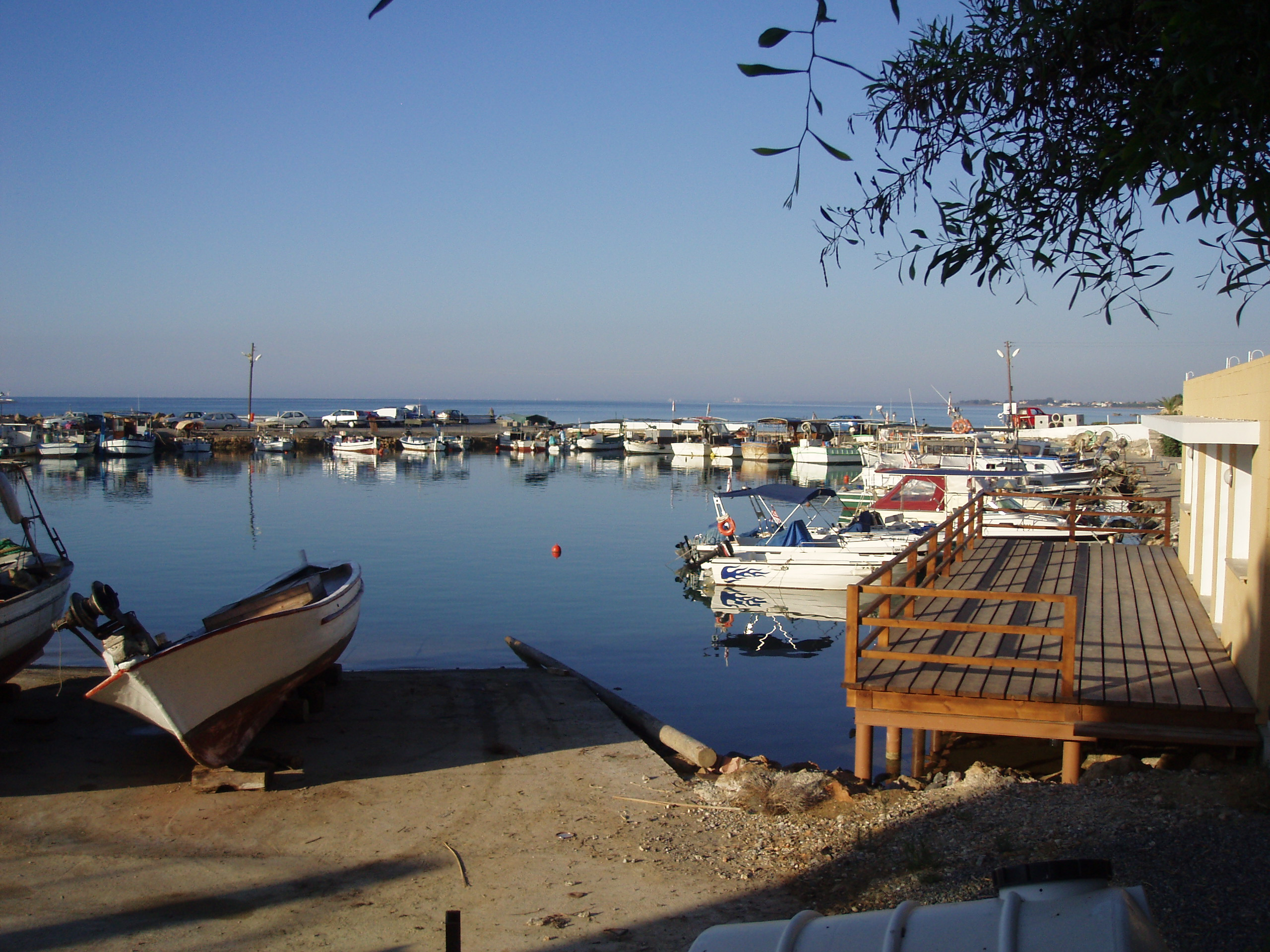 Bogaz - port